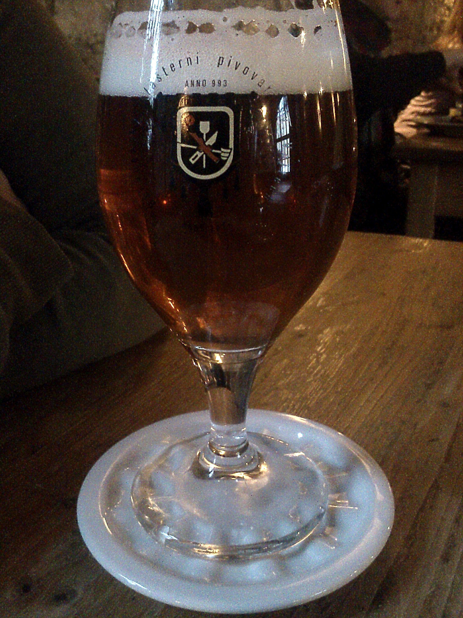 Břevnovský Benedict Imperial Pilsner (Imperial Lager) 20°, in glass with logo included Anno 993